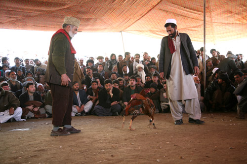 Afghans watch a cock-fighting tournament in Bagh Babor, in outskirts of Kabul, Afghanistan. Owners are allowed to stop the fight temporarily to refresh their roosters, and check their wounds, before sending them into battle again. Though the fights are not to the death, the roosters are bloodied and sometimes blinded before a winner is decided. Cock fighting, an old tradition in Kabul, was banned during the rule of the Taliban.